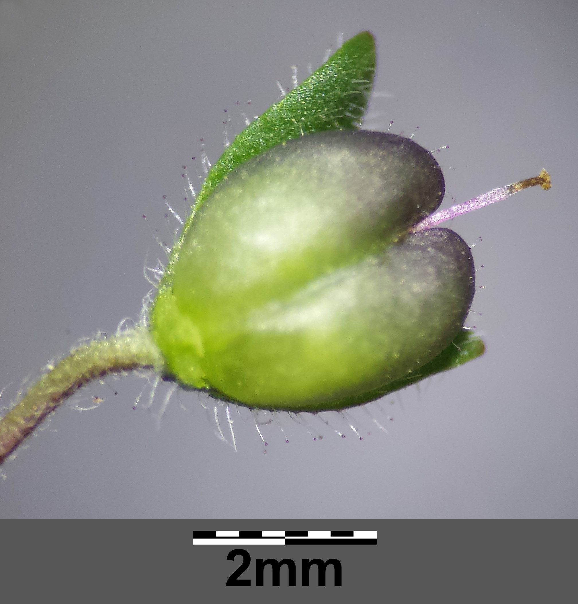 Fruit with stipe, front sepals removed Taxonym: Veronica praecox ss Fischer et al. EfÖLS 2008 ISBN 978-3-85474-187-9 Location: hollow way near Großebersdorf, district Mistelbach, Lower Austria - ca. 230 m a.s.l. Habitat: upper edge of a hollow way